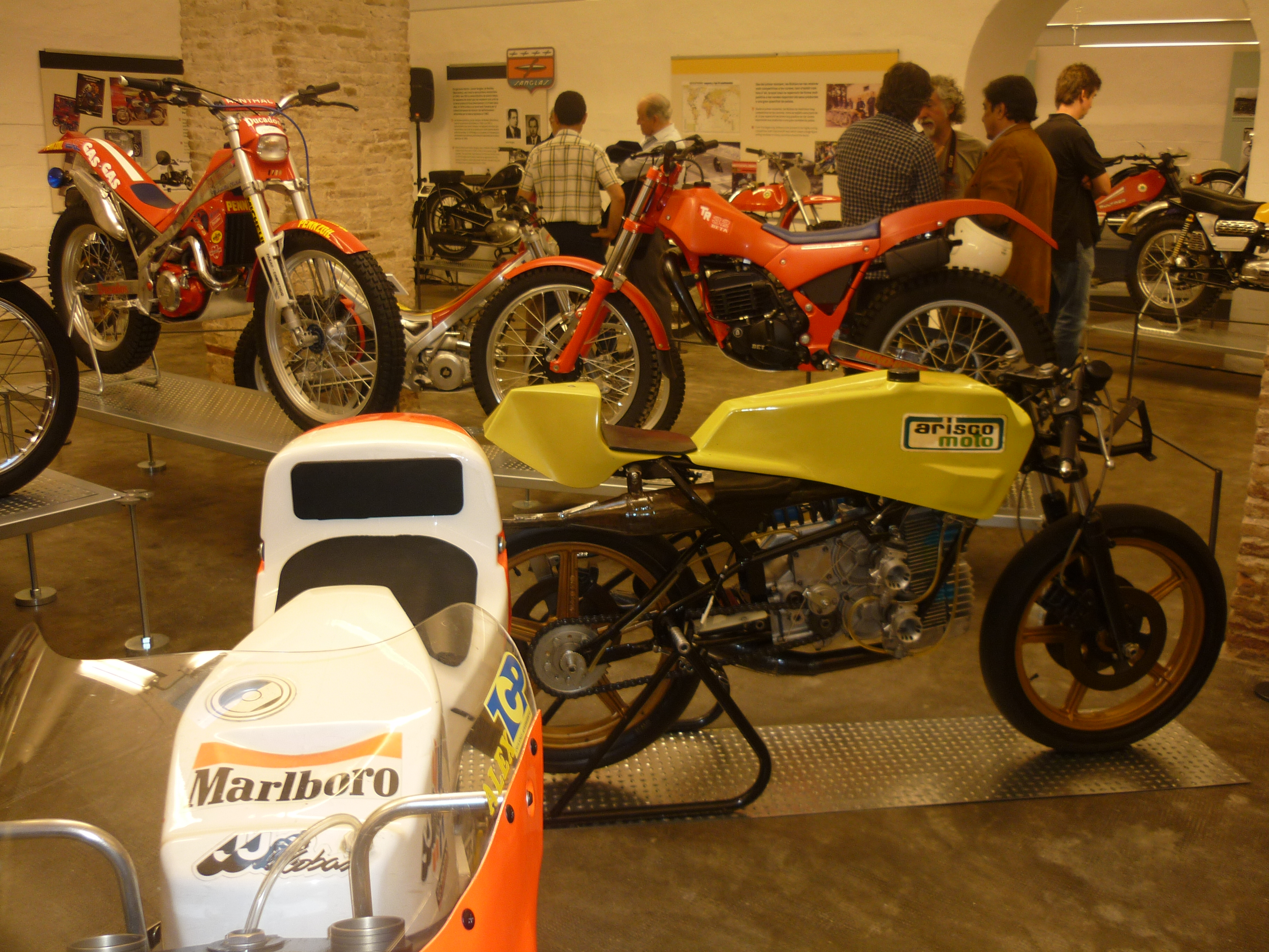 A view of the Museu de la Moto de Barcelona (Catalonia).